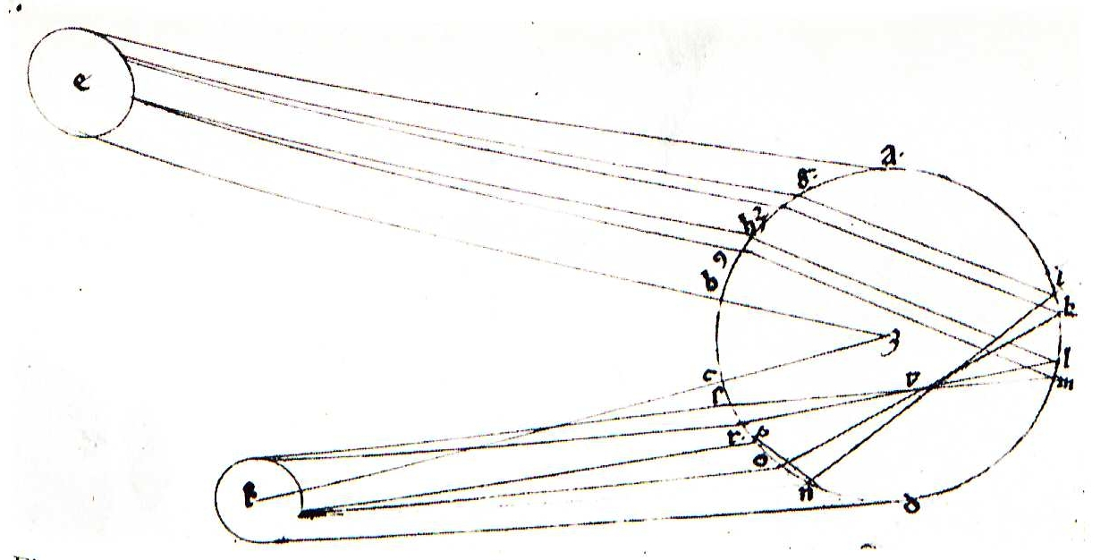 Theodoric of Freiberg: De Iride II,18–20. In: Manuscript Basel F. IV.30, f. 21r.